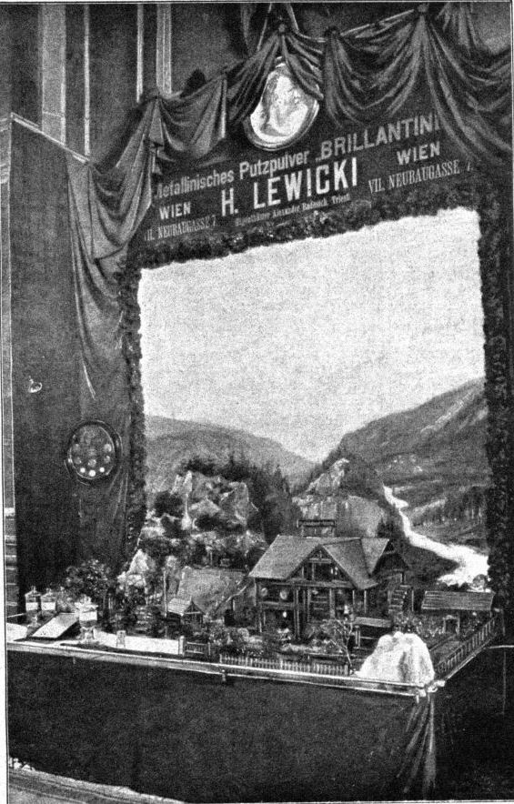 Exhibit of Lewicki Company, Jubilee Expo Vienna 1898